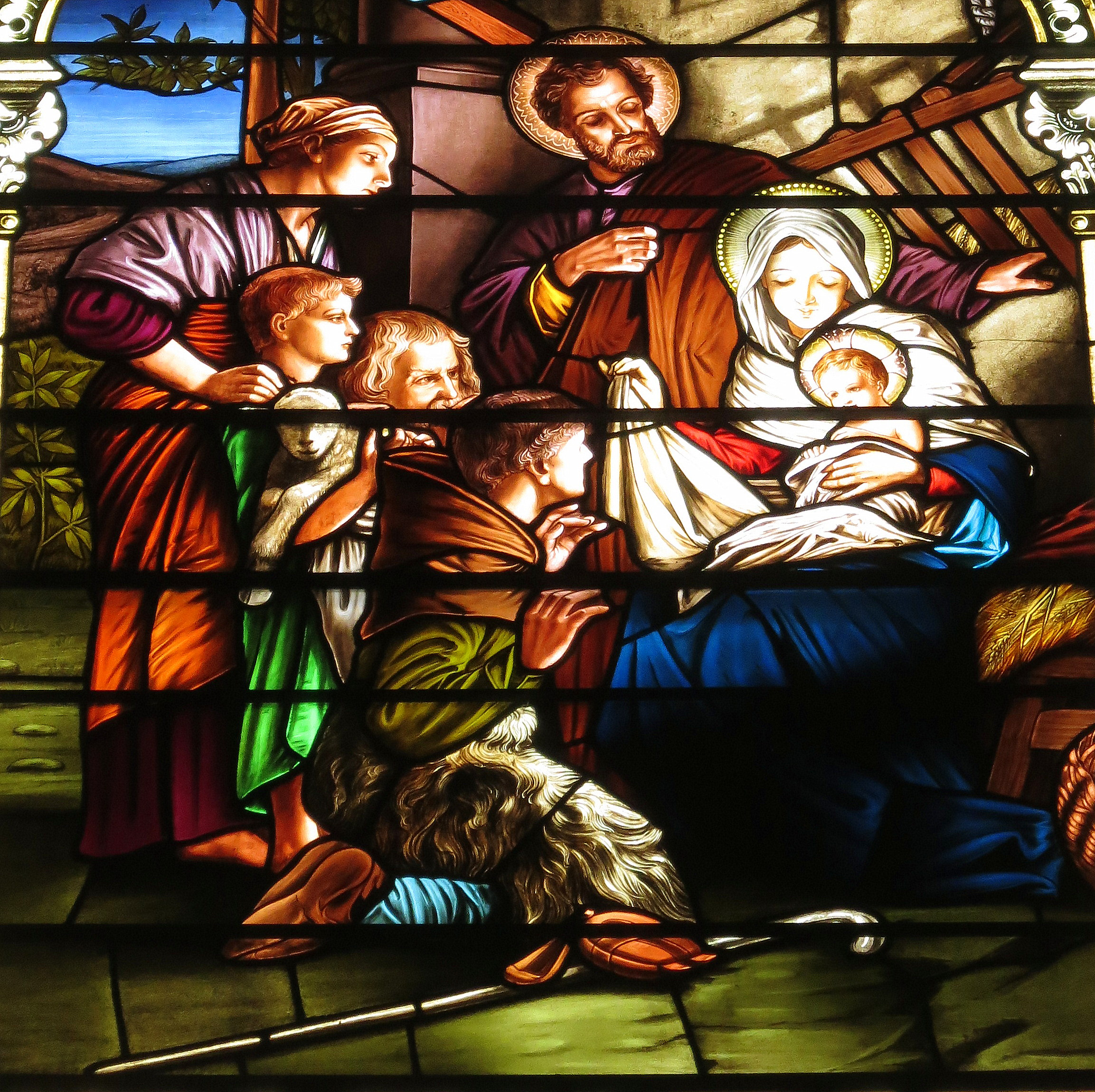 Saint Mary Catholic Church (Dayton, Ohio) - stained glass, Adoration of the Shepherds - tight crop